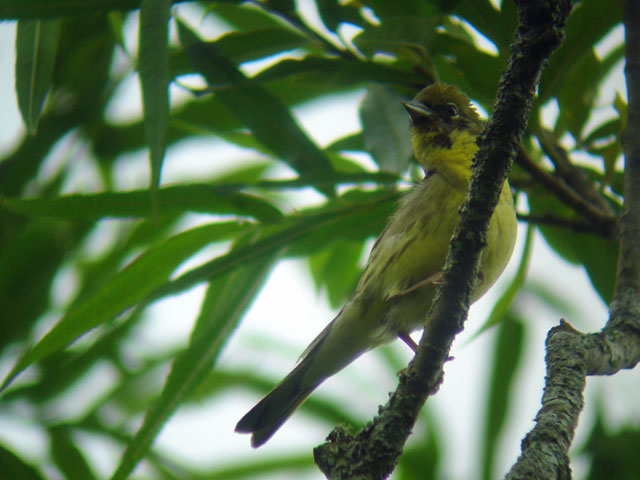 Yellow Bunting (Emberiza sulphurata) in Aomori pref on 12/July/2006